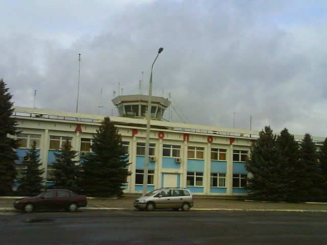 Airport Gomel